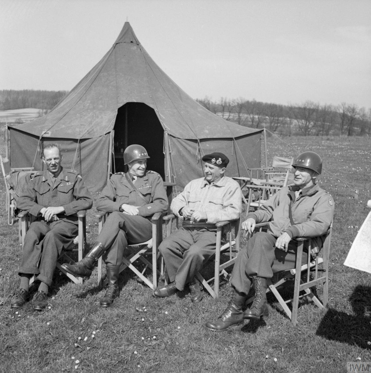 The British Army in North-west Europe 1944-45 Allied commanders conference, 11 April 1945. Lt Gen Sir Miles Dempsey (GOC 2nd British Army); General Omar Bradley (C-in-C 12th Army Group); Field Marshal Sir Bernard Montgomery (C-in-C 21st Army Group); Lt Gen W H Simpson (GOC 9th US Army).